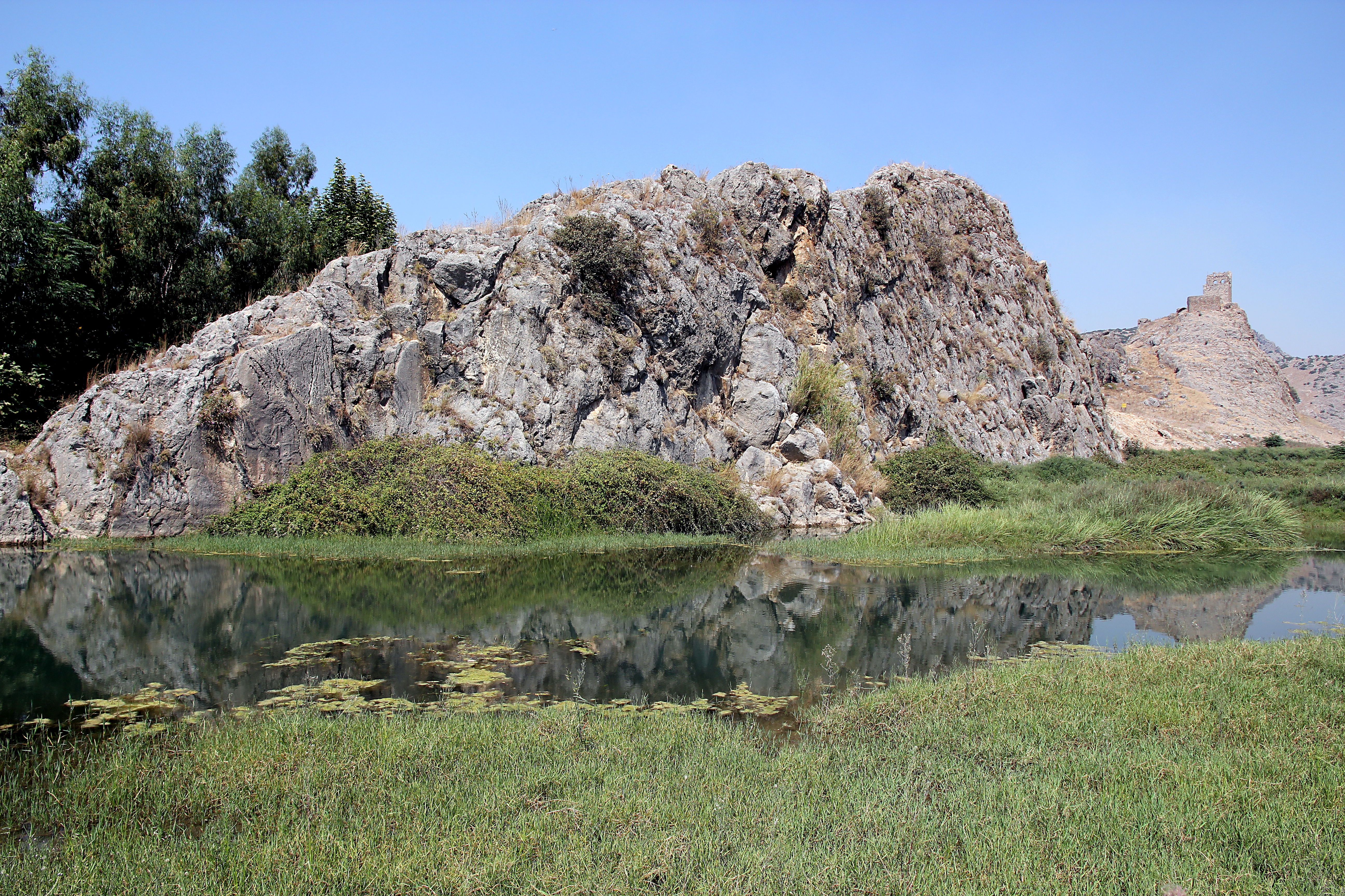 Hittite Luwian hieroglyph reliefs. On a rock formation in Osmaniye Province, southwestern Mediterranean Turkey.